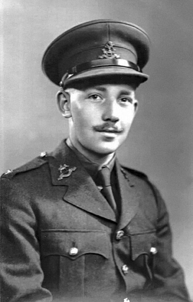 Tom Moore